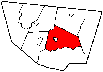 Map of Sullivan County with township and municipal bondaries is taken from US Census website [1] and modified by User:Ruhrfisch in August 2005. My modifications licensed under the GNU Free Documentation License. Source: US Census website [2], modified by User:Ruhrfisch